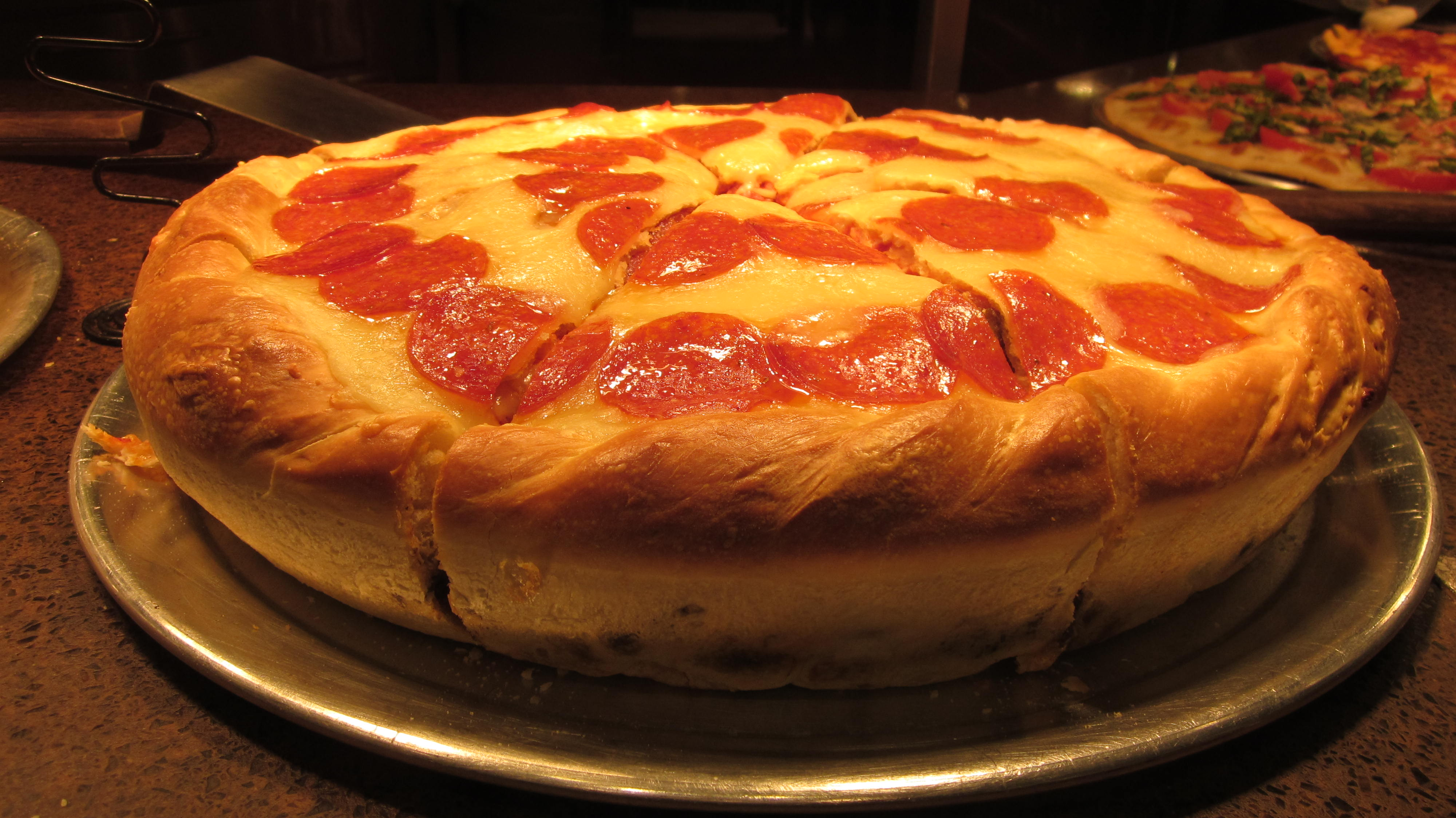 Bristol Farms Chicago Deep Dish meat pizza